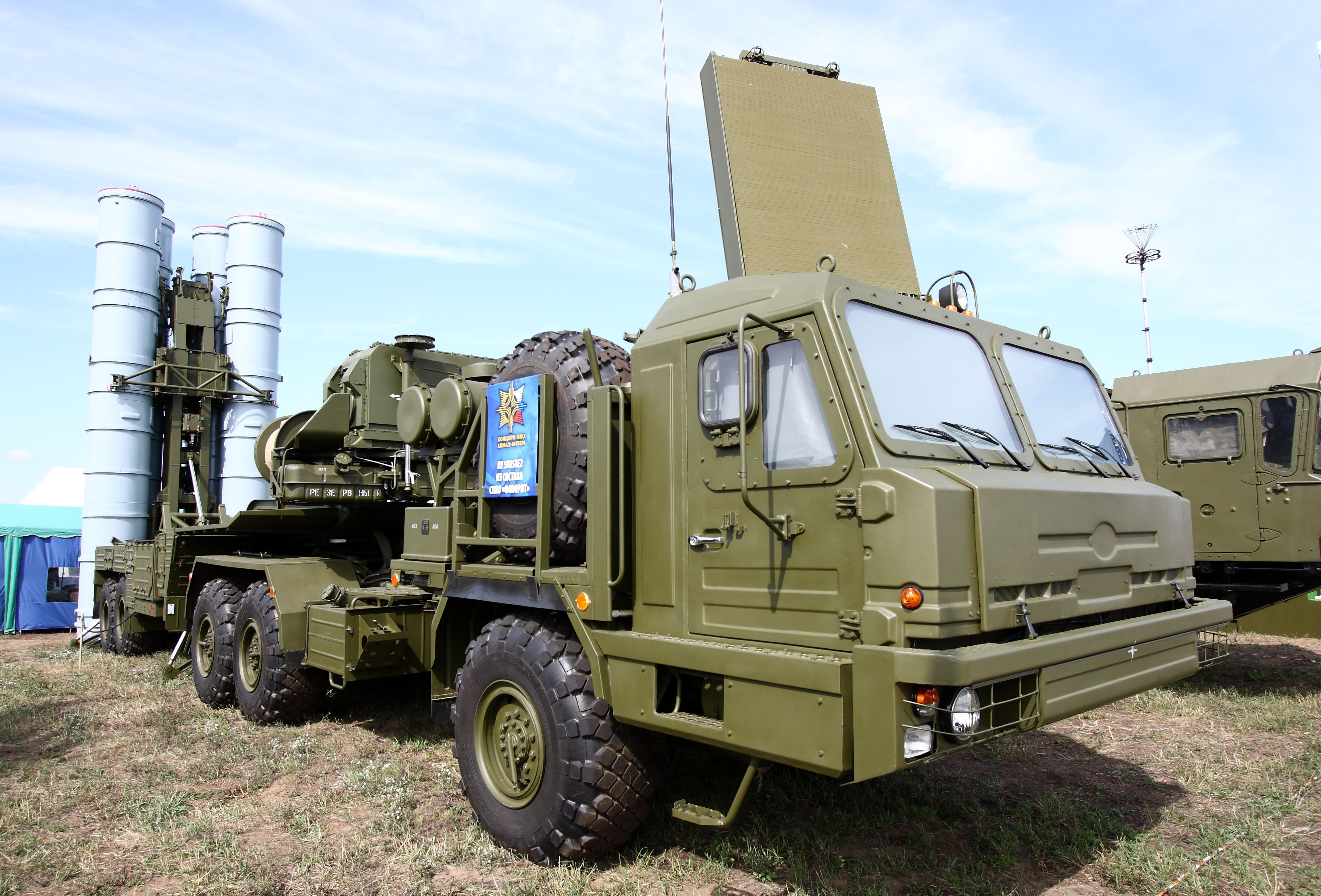 Launching shoe 5P85TE2 from Favorit (The international aerospace salon MAKS-2011)